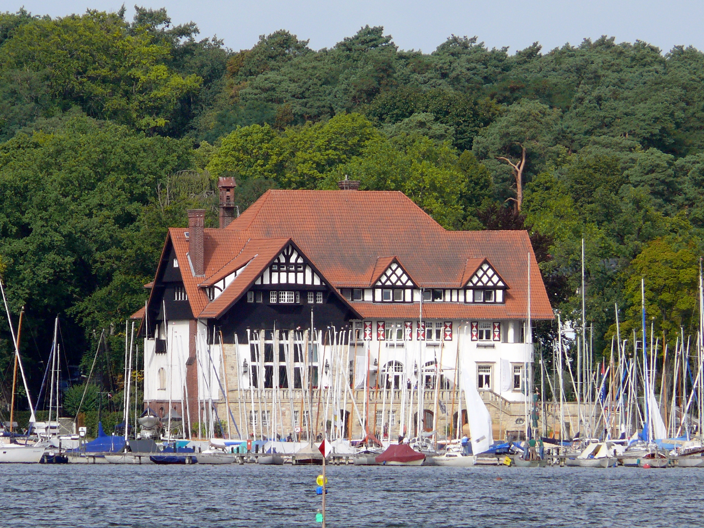 Berlin-Wannsee VSaW-Vereinshaus